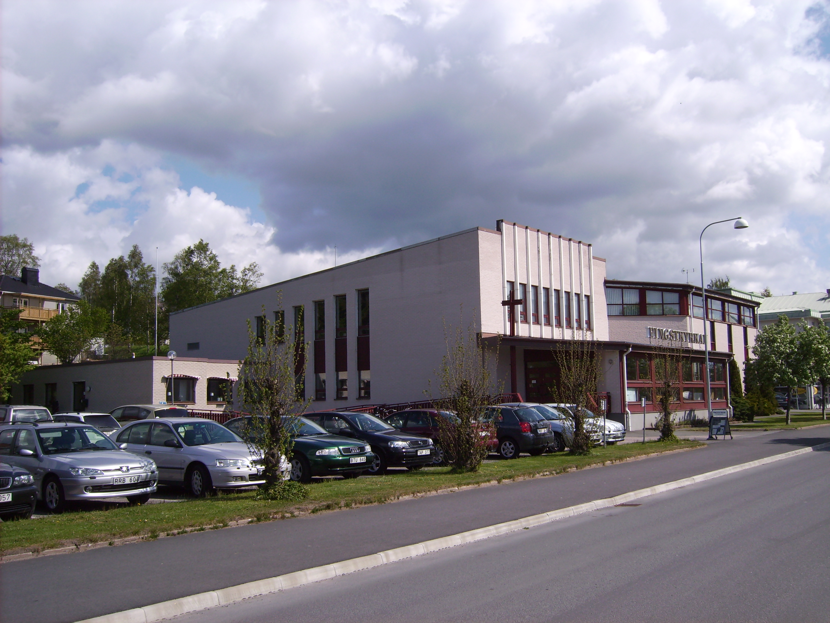 The municipality Mullsjö in Sweden.